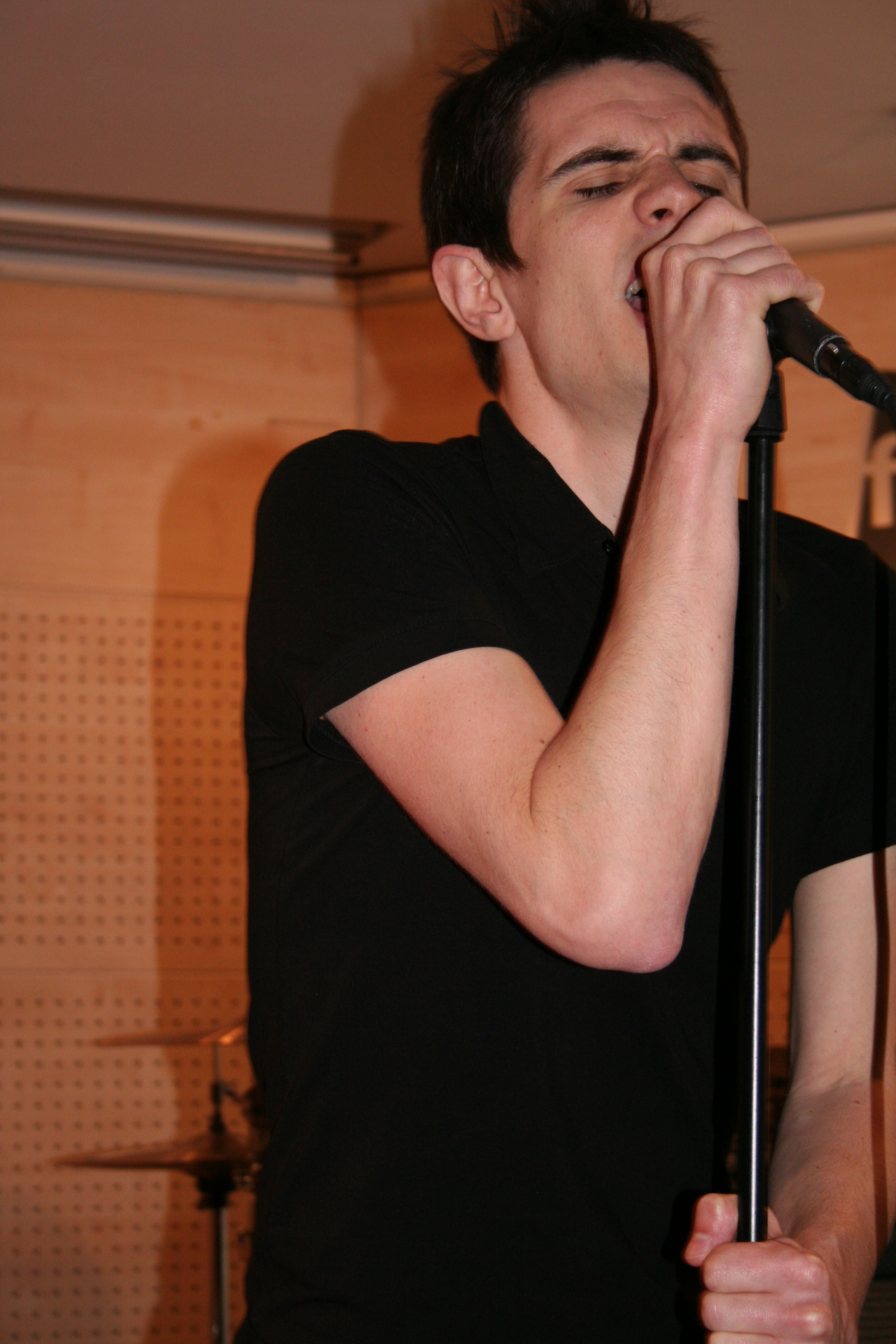 Show-case with Asyl at Fnac Saint-Lazare (Paris, France).